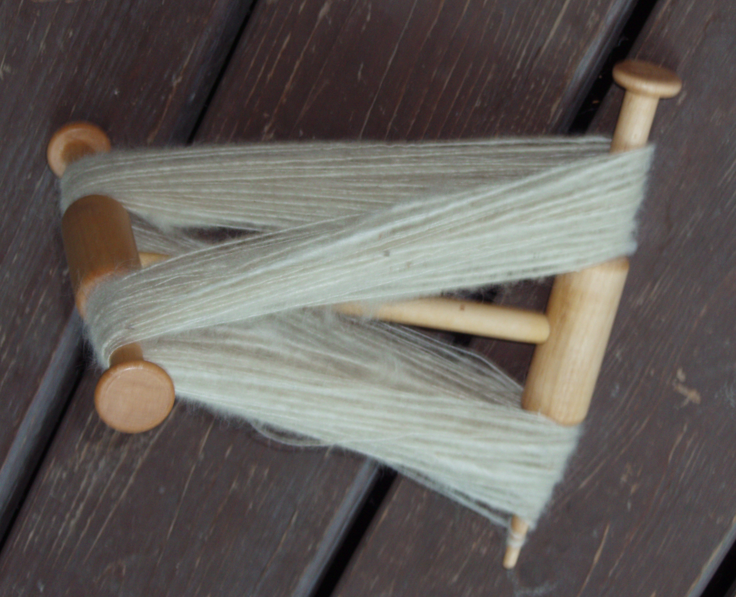 a picture of a niddy noddy with a skein of yarn on it